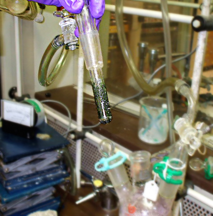 Cold finger with nickelocene (Di(cyclopentadienyl)nickel / Bis(cyclopentadienyl)nickel(II))